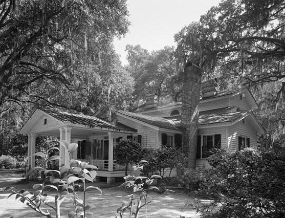 Wicklow Hall Plantation — State Route 30, Georgetown vicinity, in Georgetown County, South Carolina 1977 image: HABS—Historic American Buildings Survey of South Carolina, cropped.